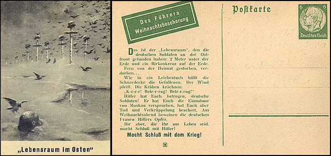 A stamped propaganda postcard issued in USSR for German troops for Christmas of 1941, Battle for Moscow, December 1941. A falsified postcard with a standard 6 pfennig German stamp depicting Paul von Hindenburg; obverse and reverse sides.